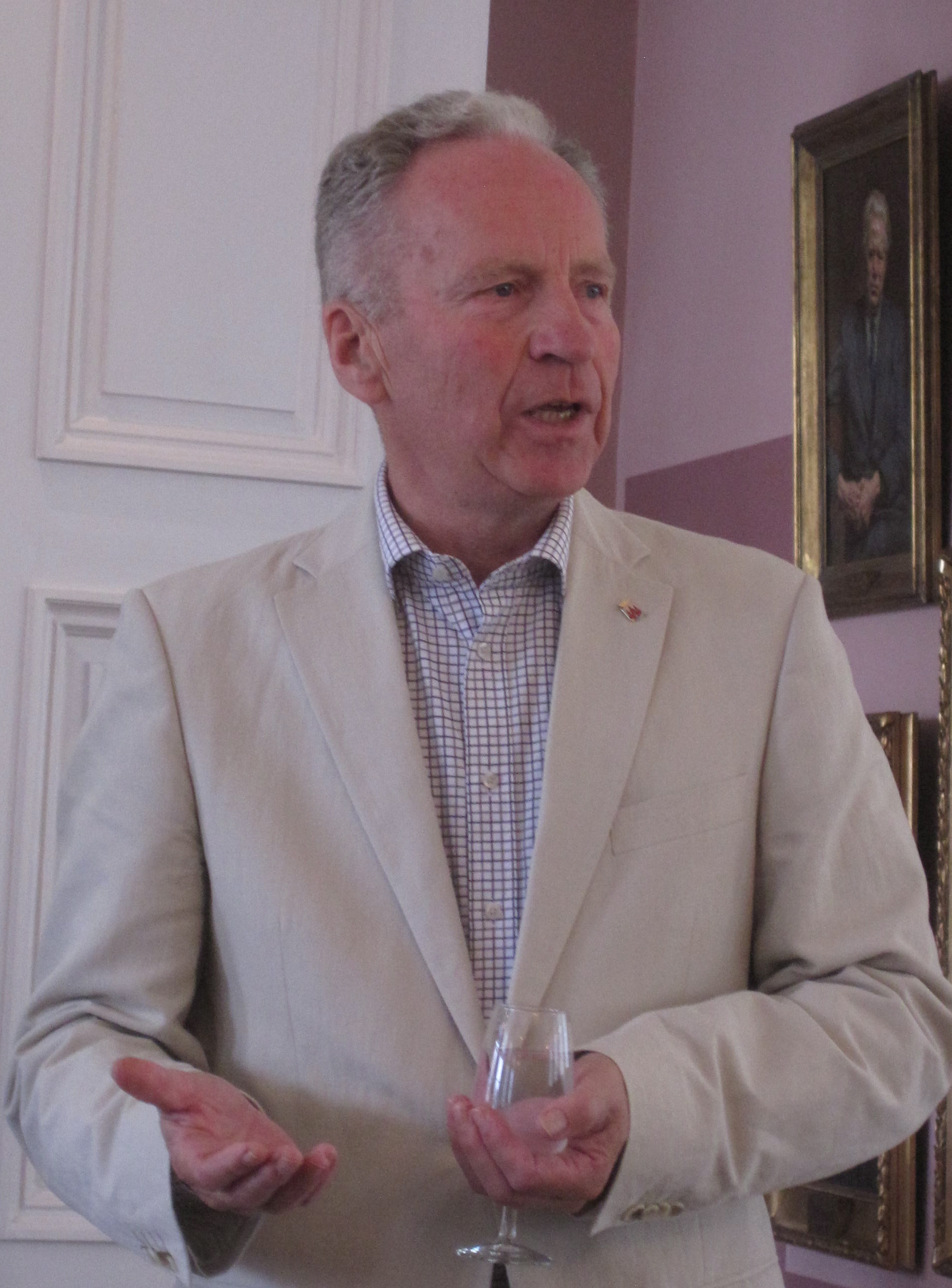 Lennart Prytz (born 1943), Swedish local politician and municipial commissioner of Lund.